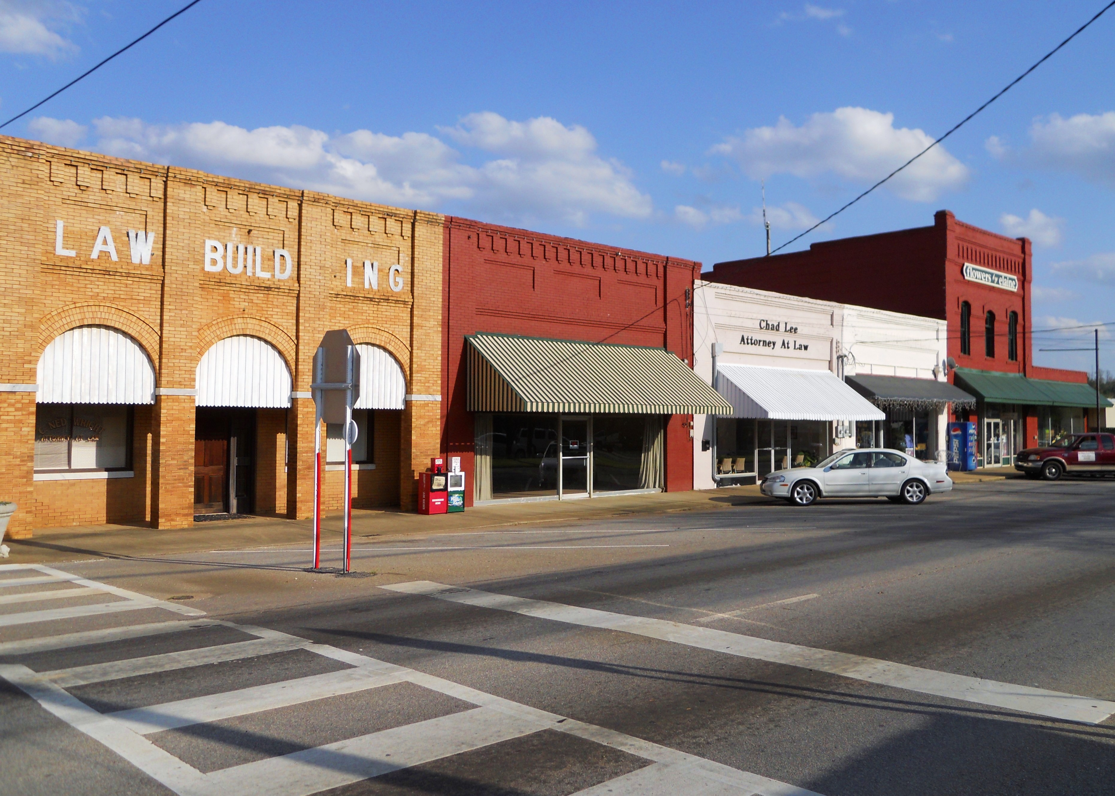 This is a photograph of downtown Wedowee, Alabama.